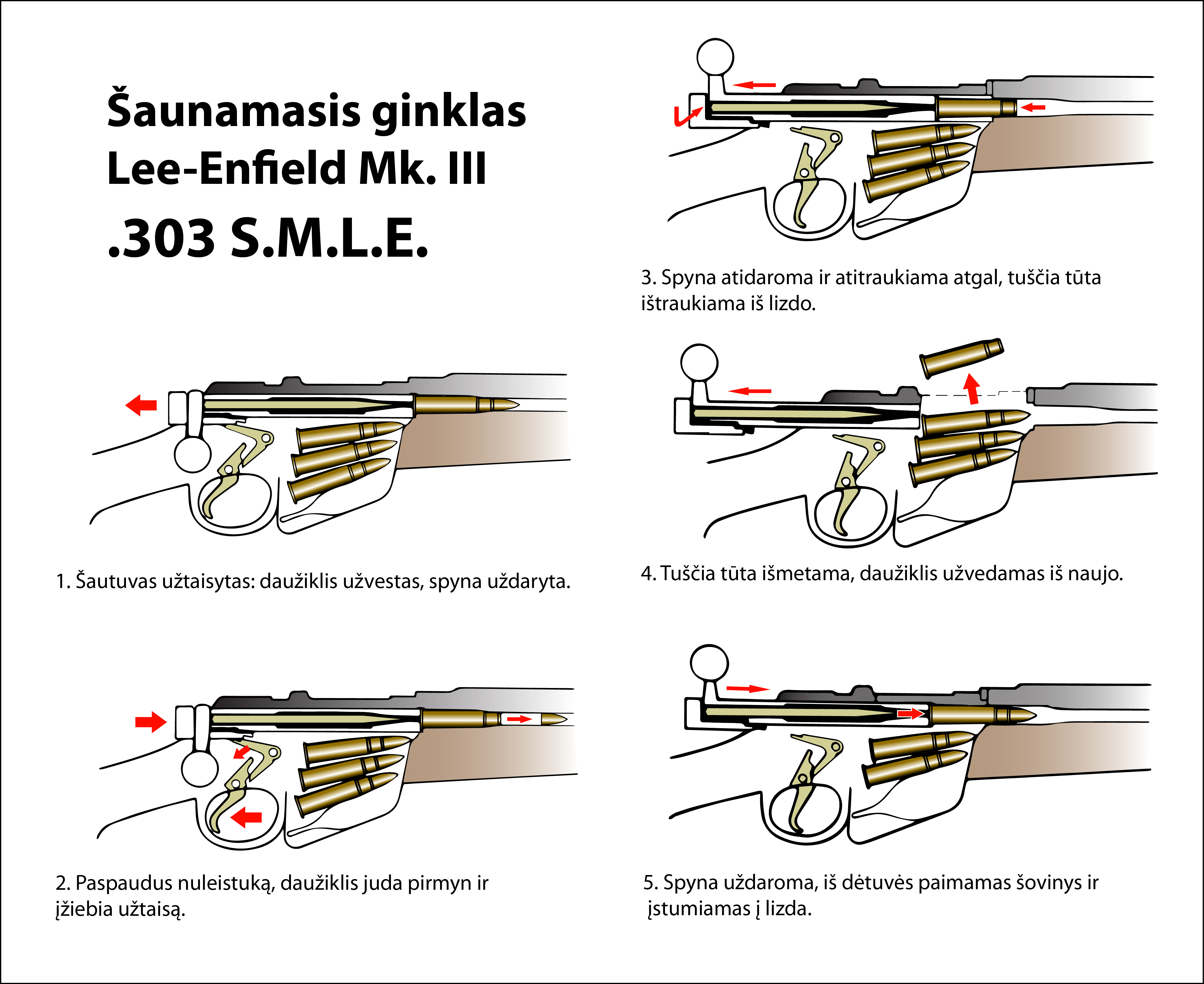 Šautuvo veikimo principas